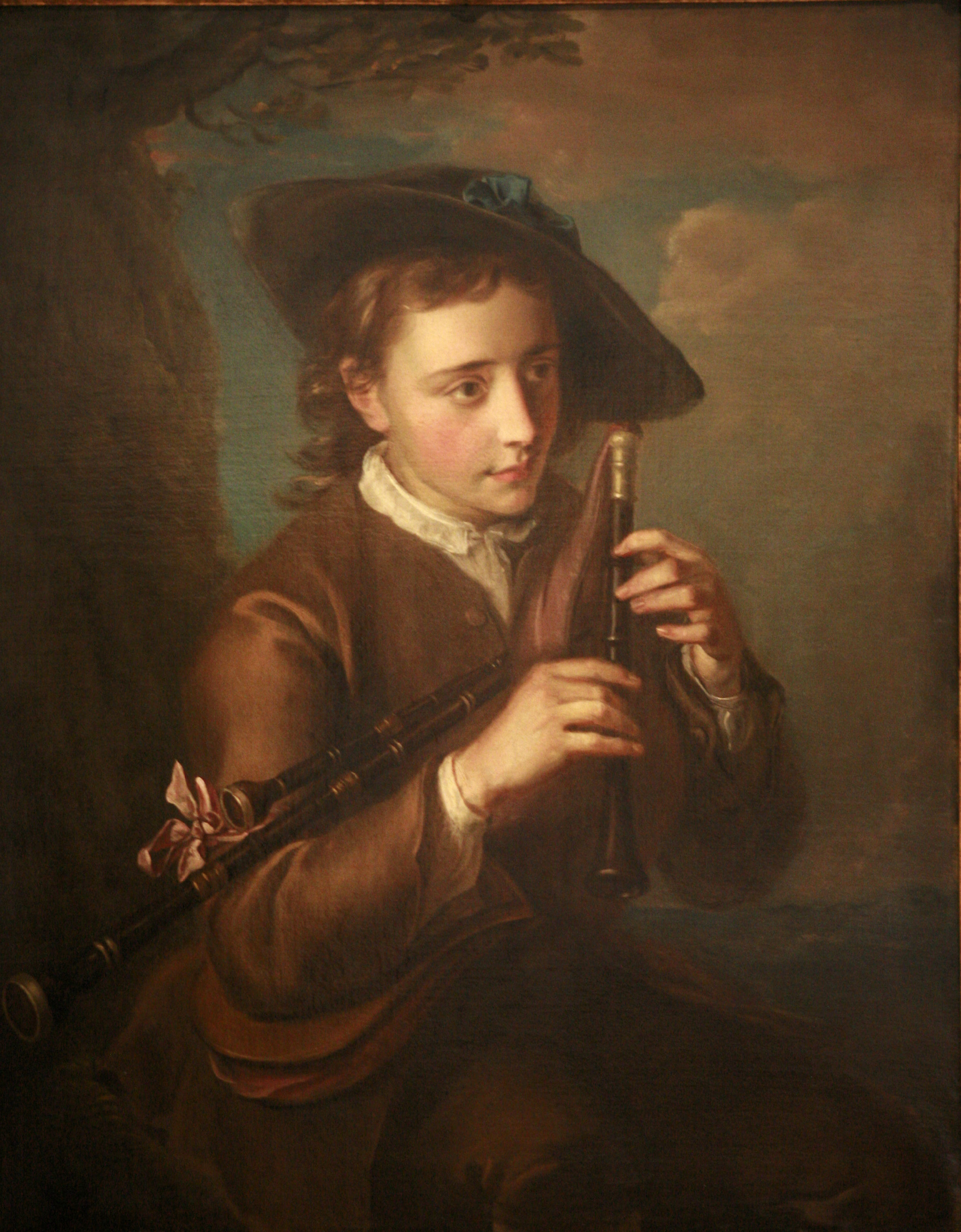 Bagpipe player, Philippe Mercier, oil on canvas. Accession number 1866.